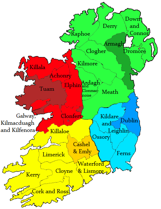 Catholic dioceses of Ireland with names